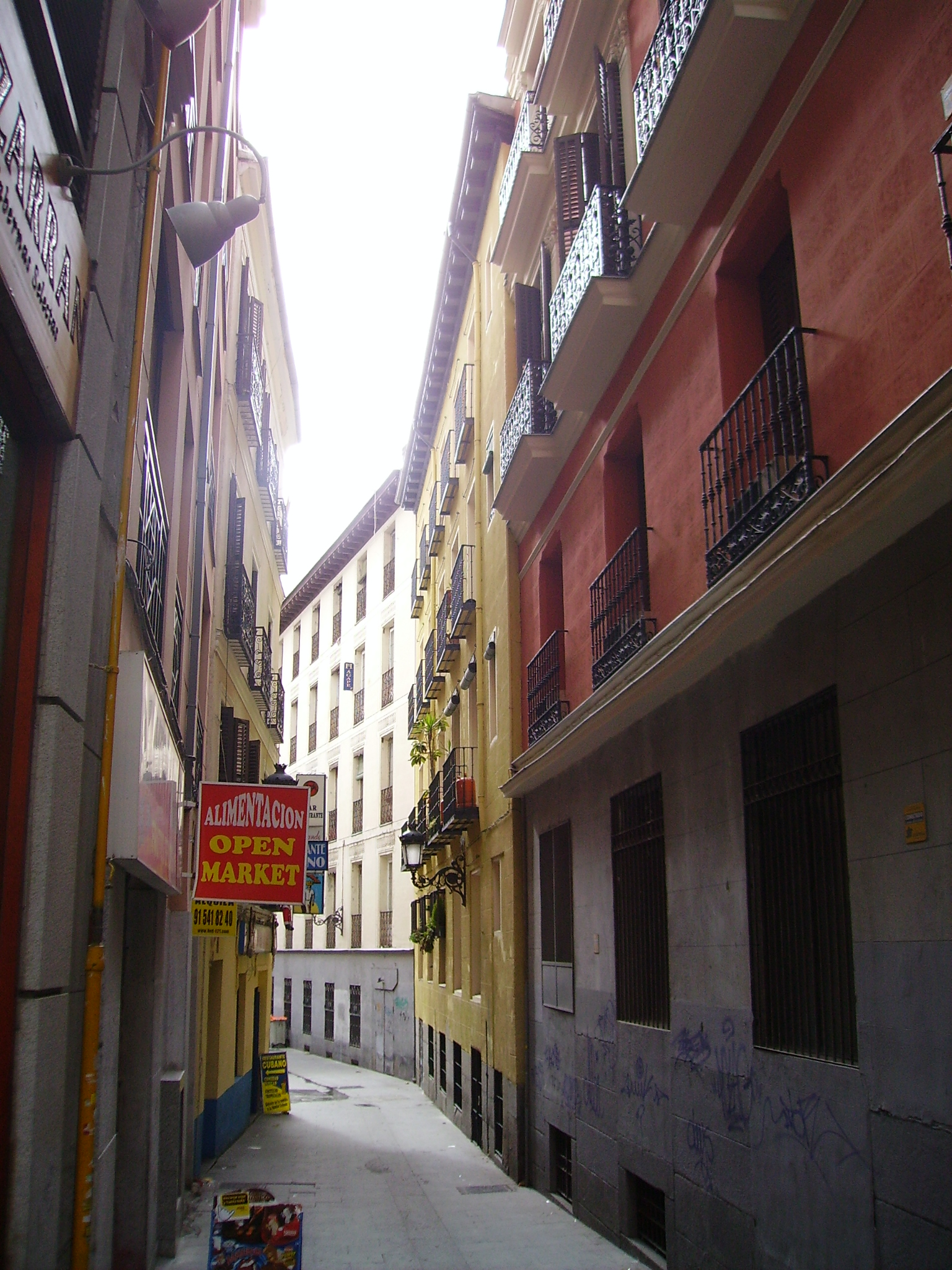 Ternera Street in the centre of Madrid.